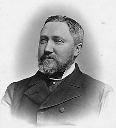 Malcolm Alexander MacLean, 1st Mayor of Vancouver City of Vancouver Archives Photograph # Port P221